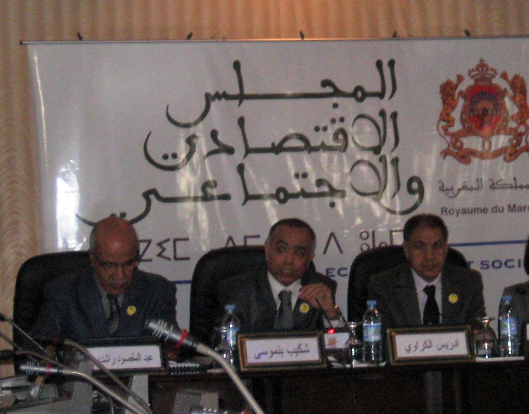 Chakib Benmoussa, former Minister of Interior of Morocco